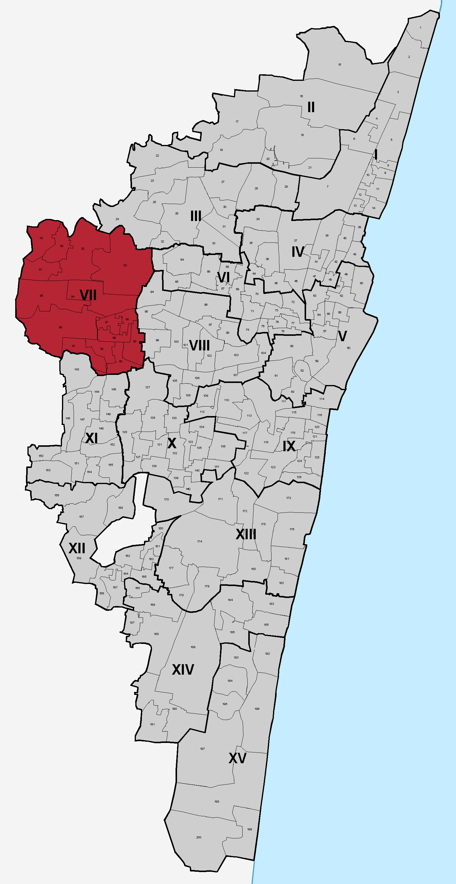 Location of Ambattur zone in Chennai